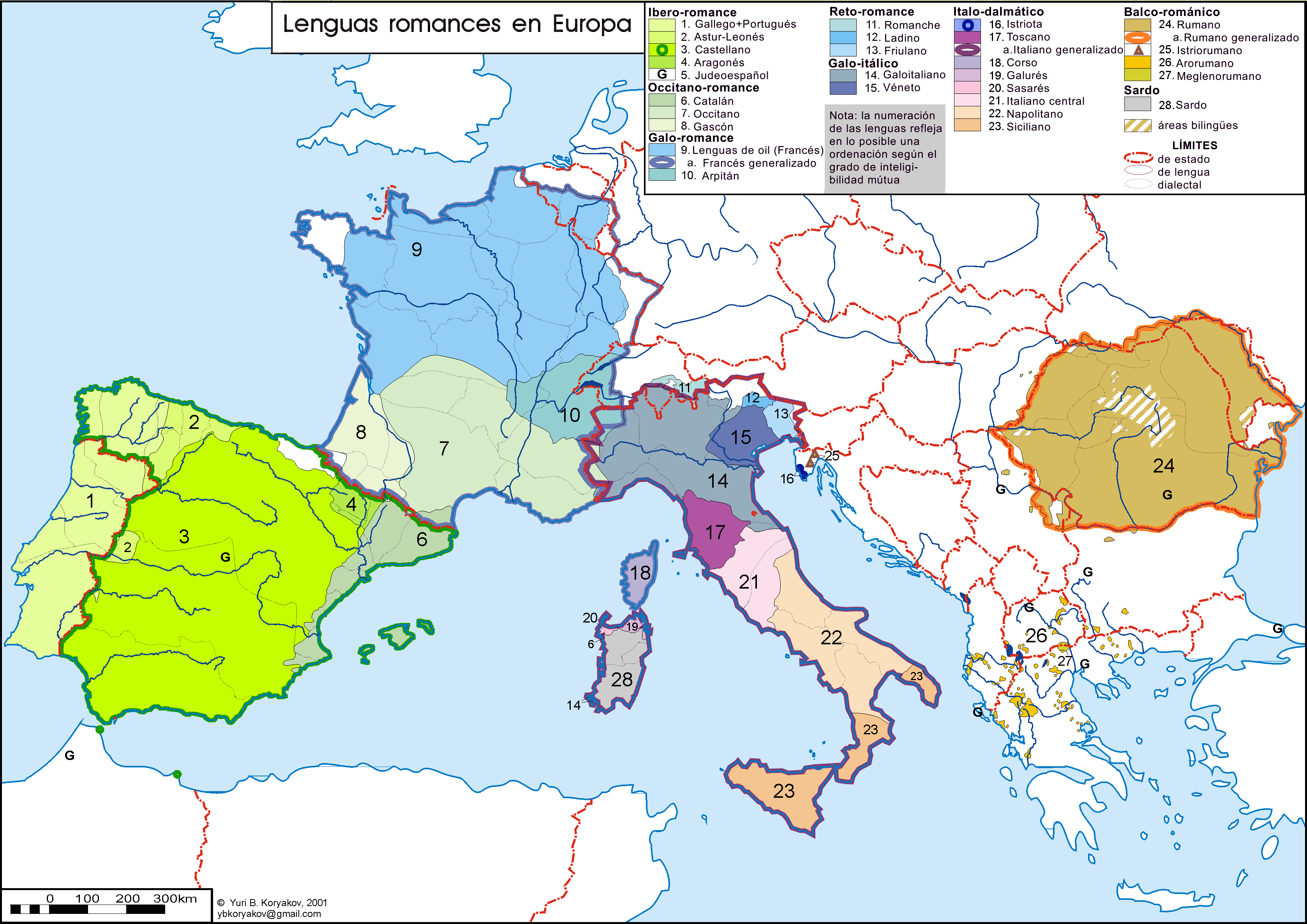 translation to spanish from english original file